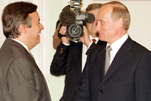 THE KREMLIN, MOSCOW. Portuguese Prime Minister Antonio Guterres.